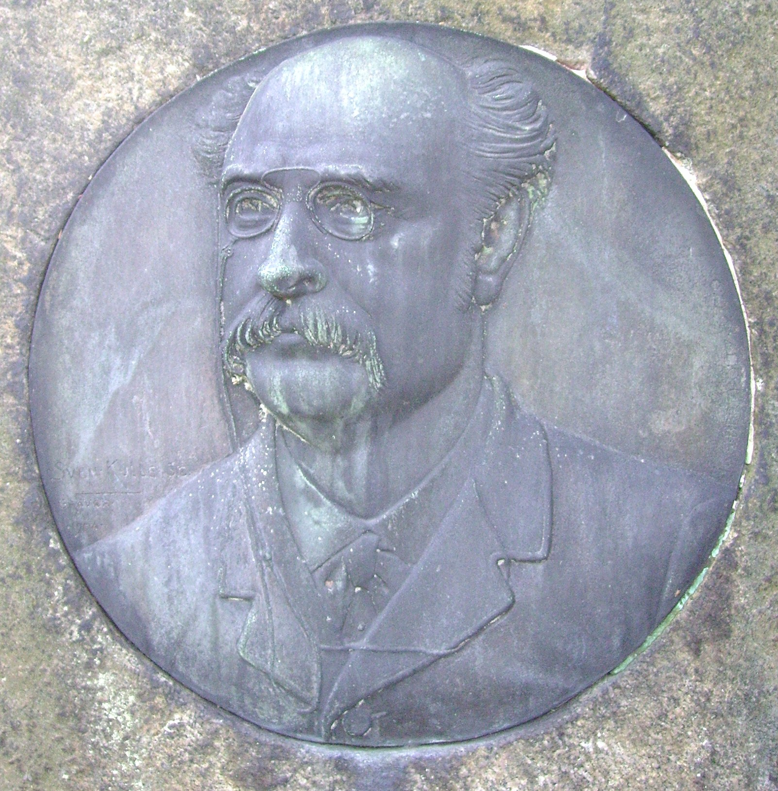 Picture of detail on Gustaf Björklunds grave at Norra begravningsplatsen in Solna